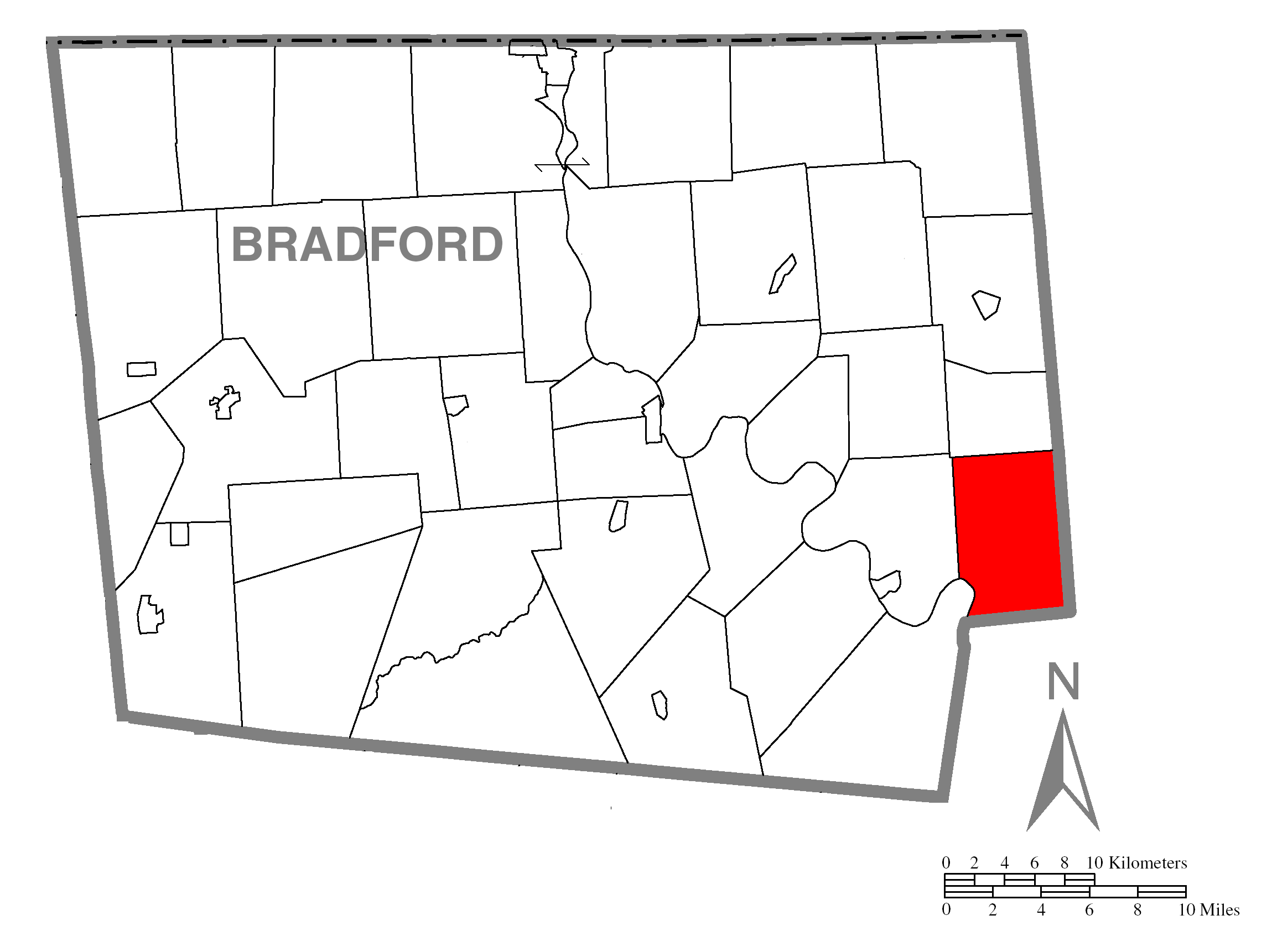 A map of Bradford County showing Tuscarora Township, Pennsylvania (alternate) highlighted on the map.